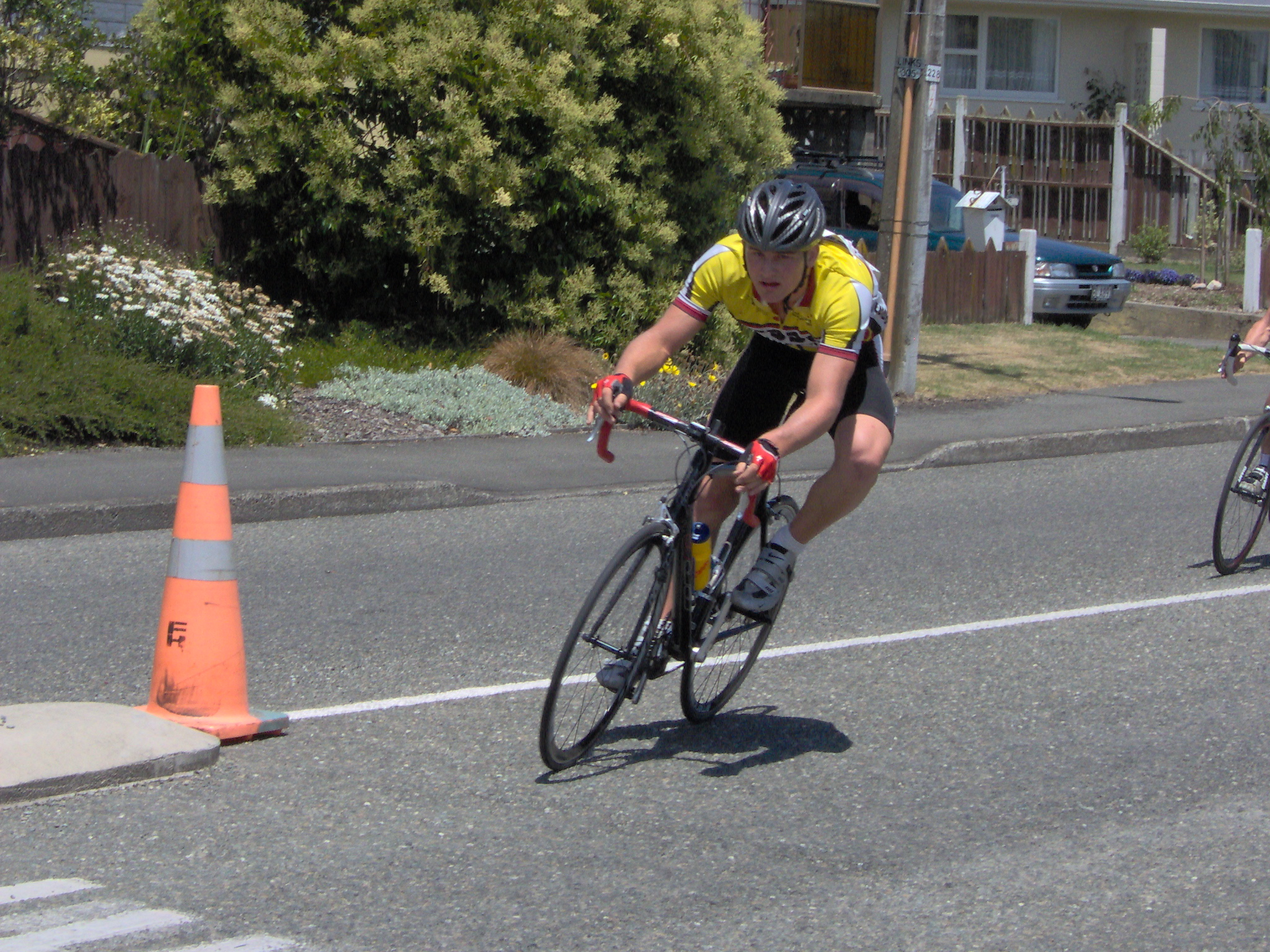 A rider cornering in Stage 4 of the 2008 Tour de Vineyards